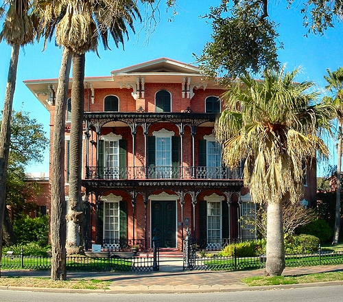 Ashton Villa — landmark villa and historic house museum in Galveston, southeast Texas. A circa 1859 Italianate style residence, that was one of the first brick buildings in Texas. It served as the local Confederate and then Federal military headquarters for Texas during the Civil War. On the National Register of Historic Places in Galveston.